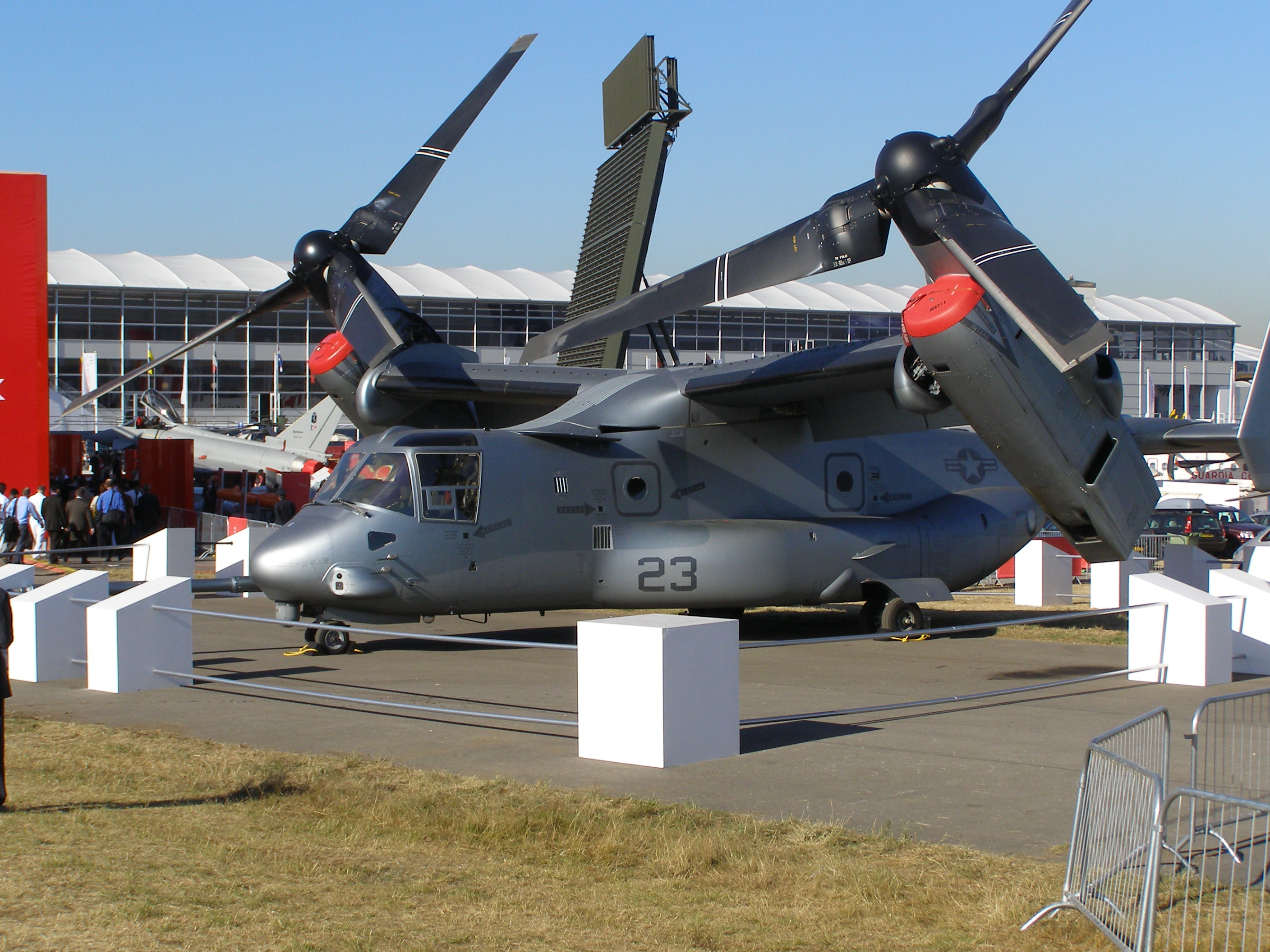 United States Marines MV-22B 166480 on display at Farnborough Air Show 2006